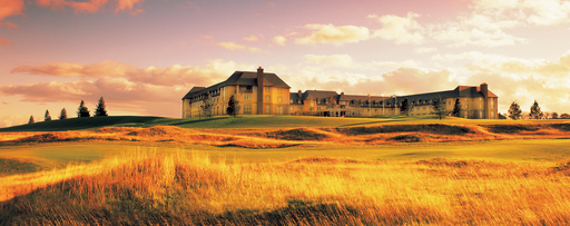 An exterior shot of the Fairmont St Andrews